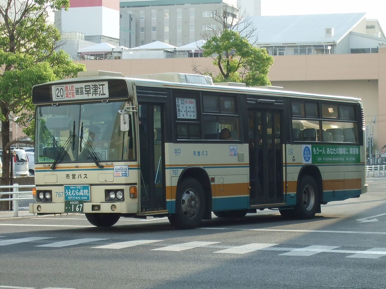 Company:Saga City Transportation Bureau Use:transit bus Car license:佐賀200 か・167 Code:767 Chassis manufacturer:Hino Motors Coachbuilder:Hino Body Location:at Saga Station Bus Terminal, Saga City, Saga, Japan.